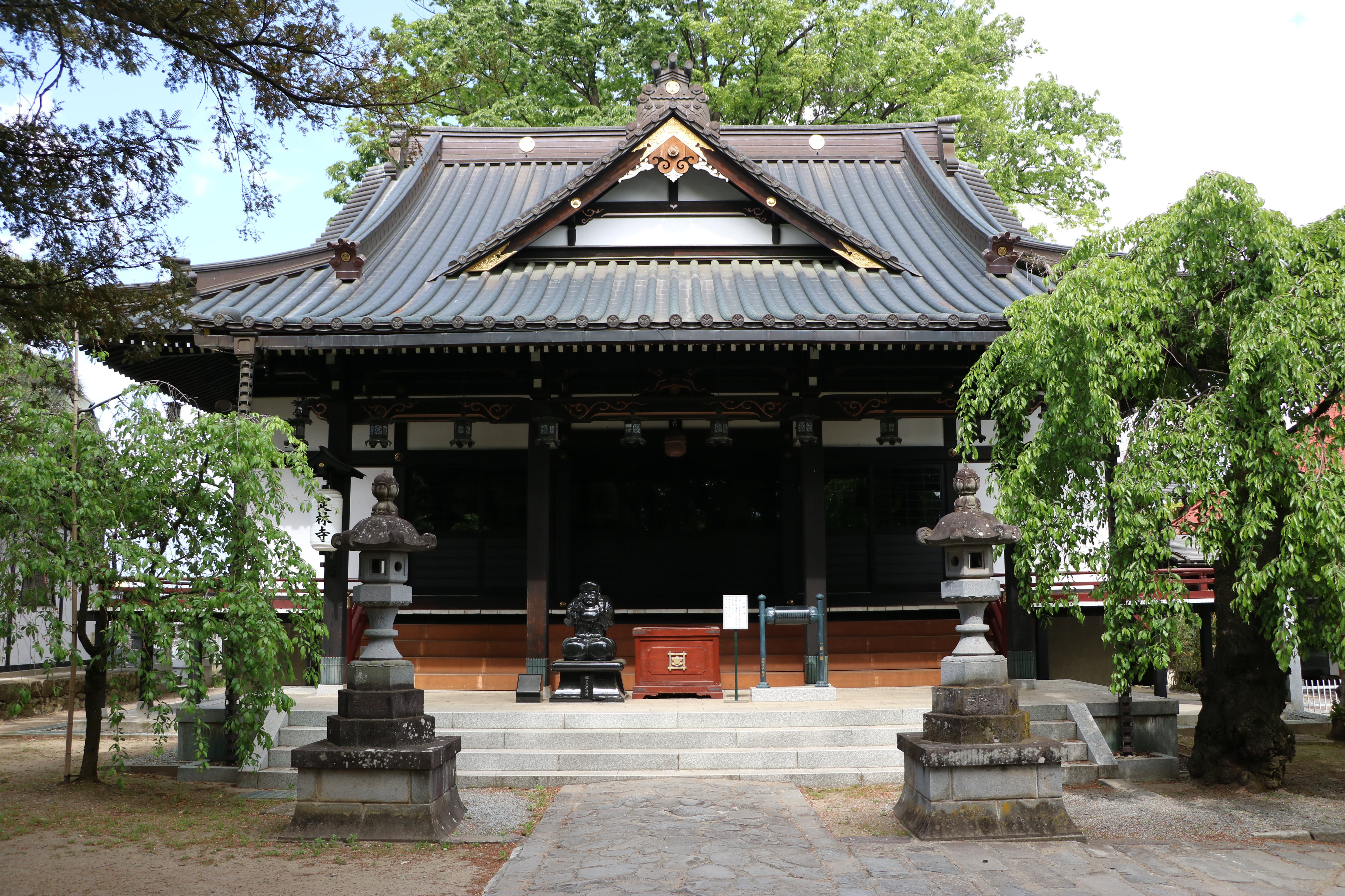 Jorin-ji temple (Fuefuki city), main hall